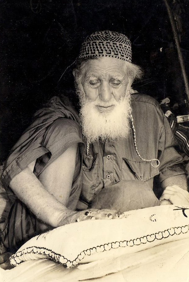 Tarbha Waale Baba